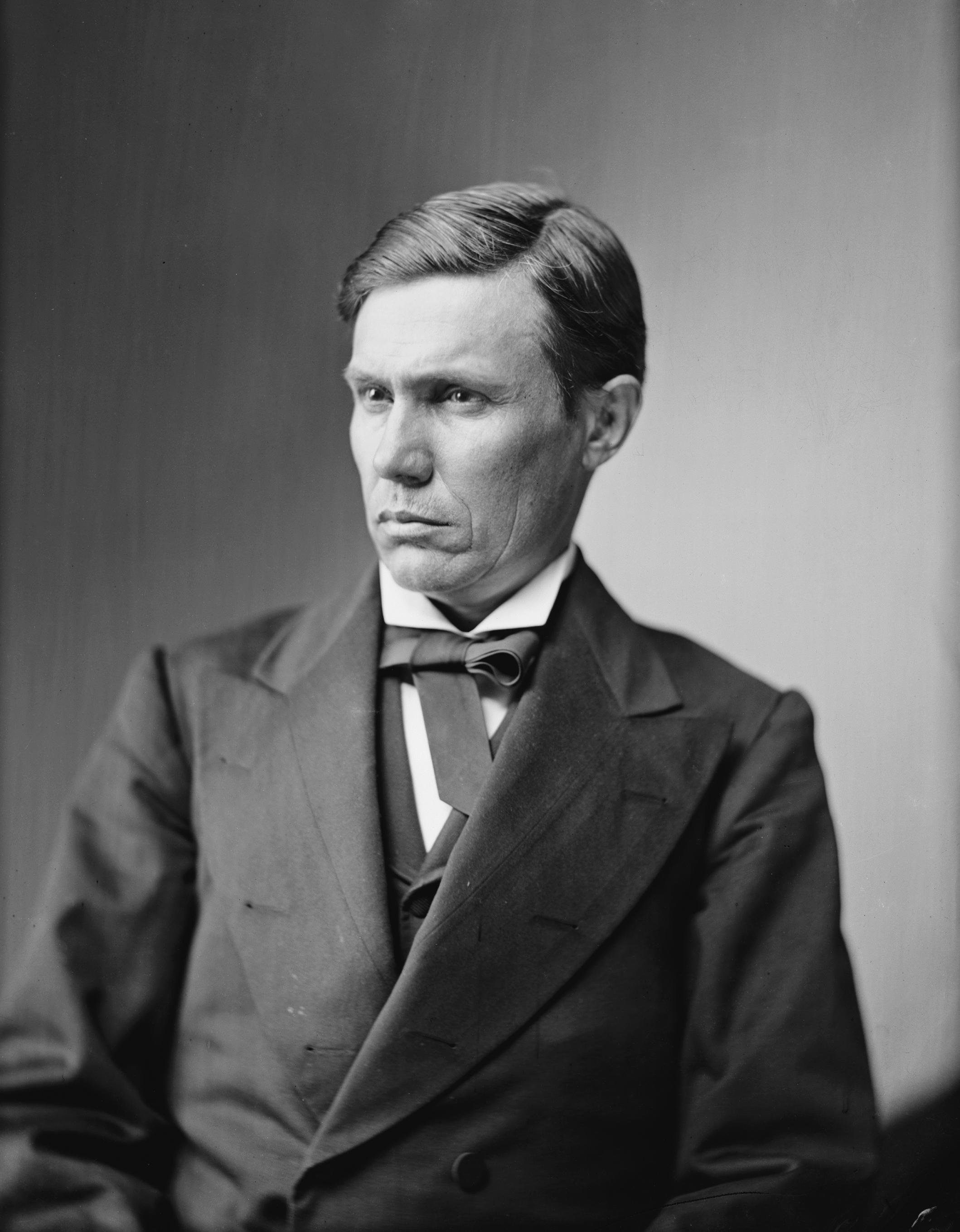 Milton A. Candler. Library of Congress description: "Candler, Hon. Rep. Milton A. from Ga. M.C."